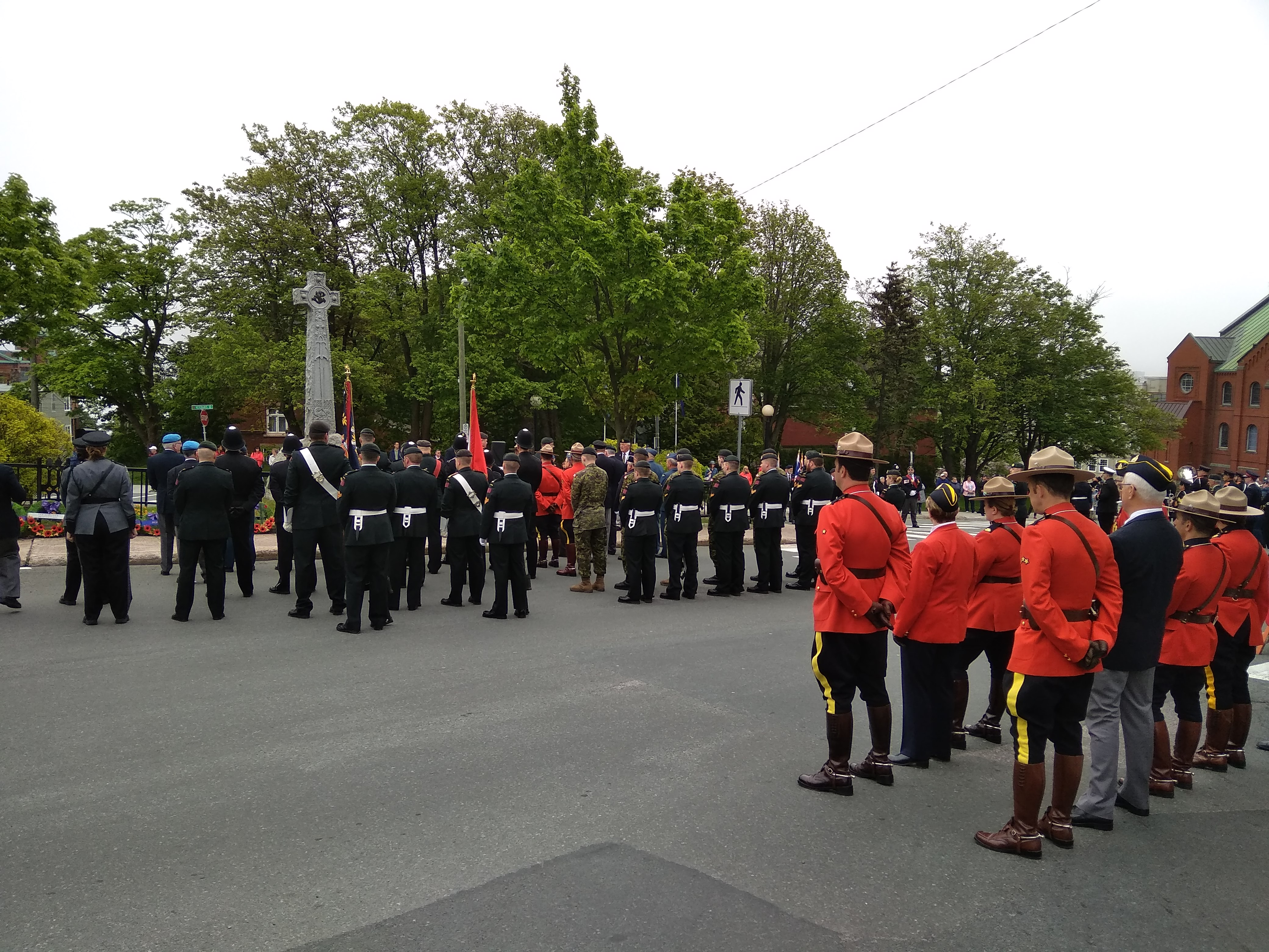 Participants of Memorial Day Parade at Veteran's Square, St. John's, NL, on July 1, 2018